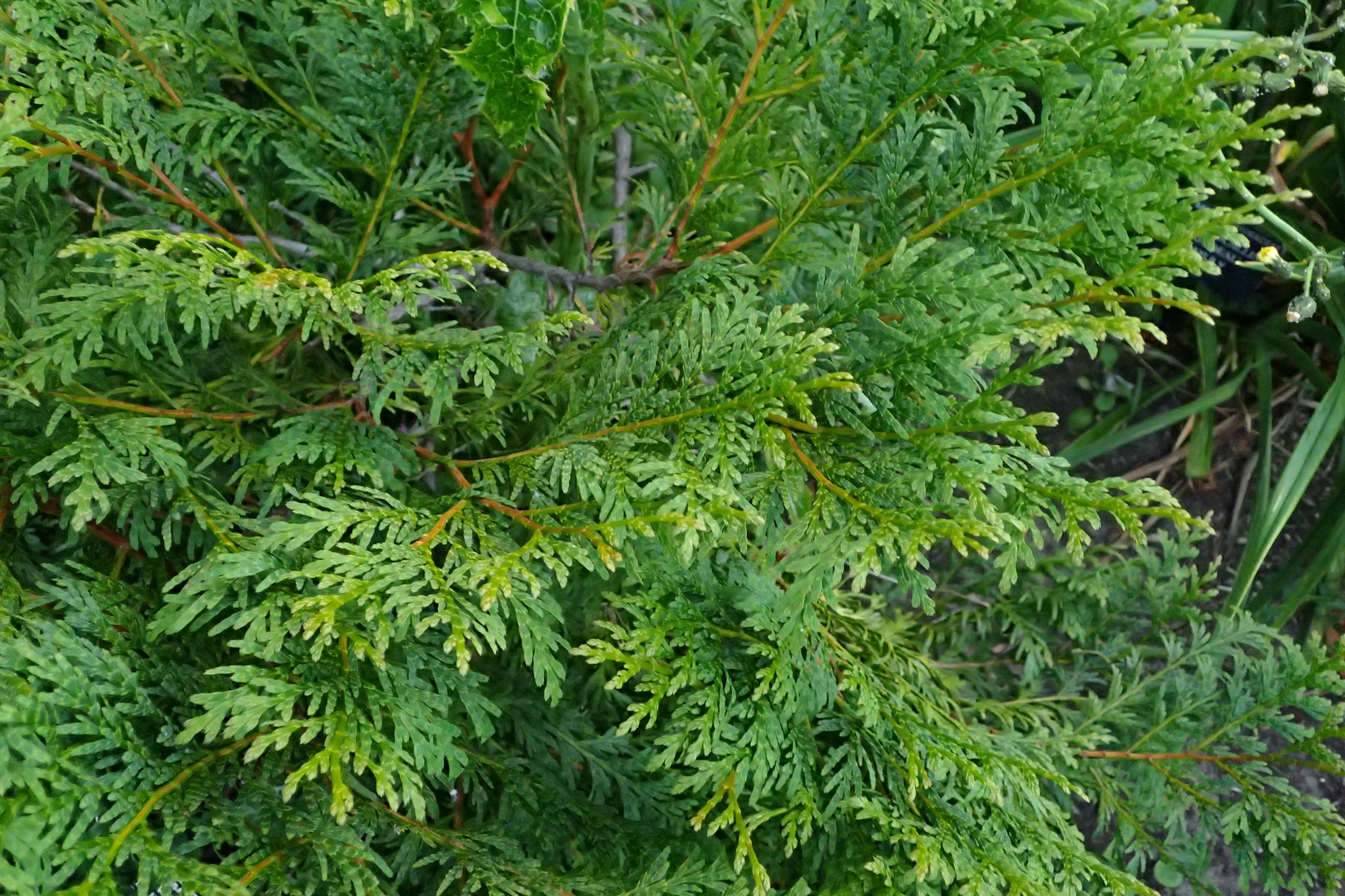 Calocedrus macrolepis in the San Francisco Botanical Garden